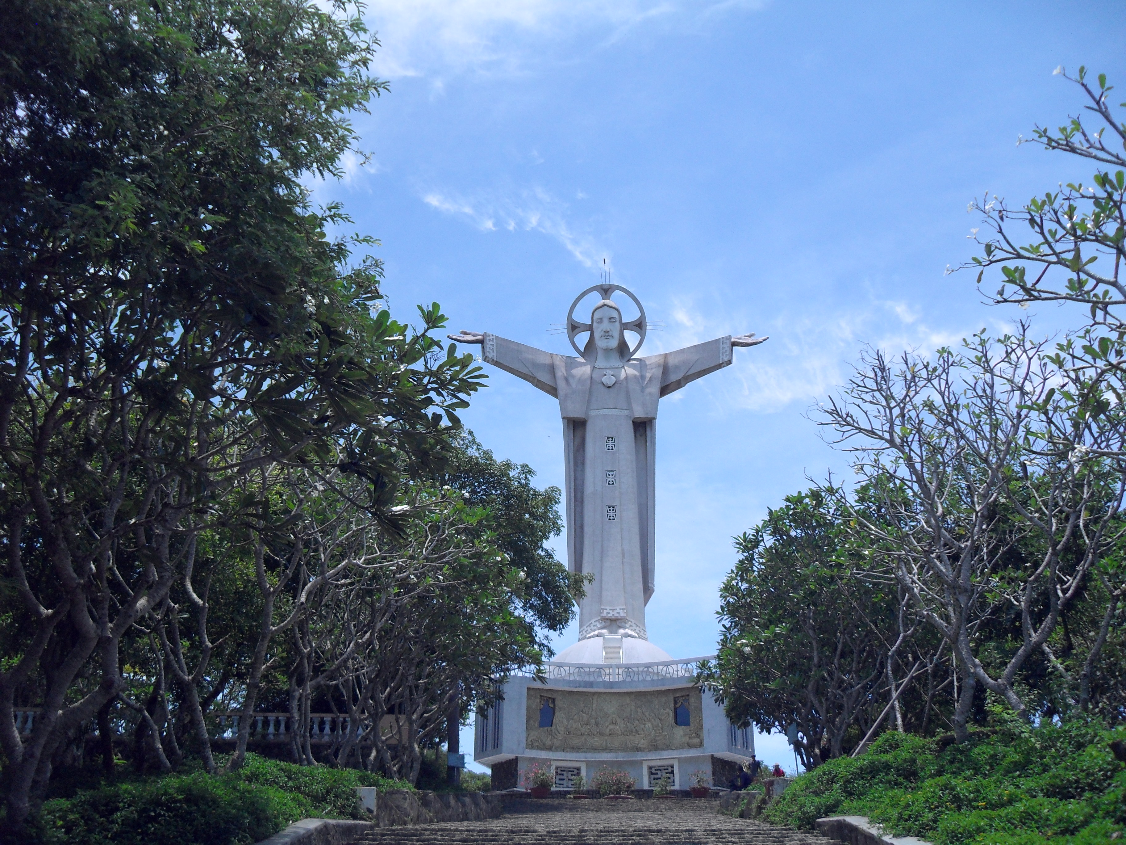 Giant statue of Jesus in Vung Tau, Vietnam